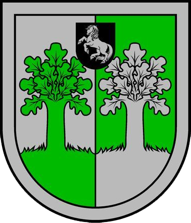 Coat of arms of Ilūkstes novads, Latvia